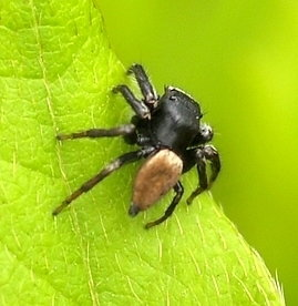 male Evarcha albaria from Japan.